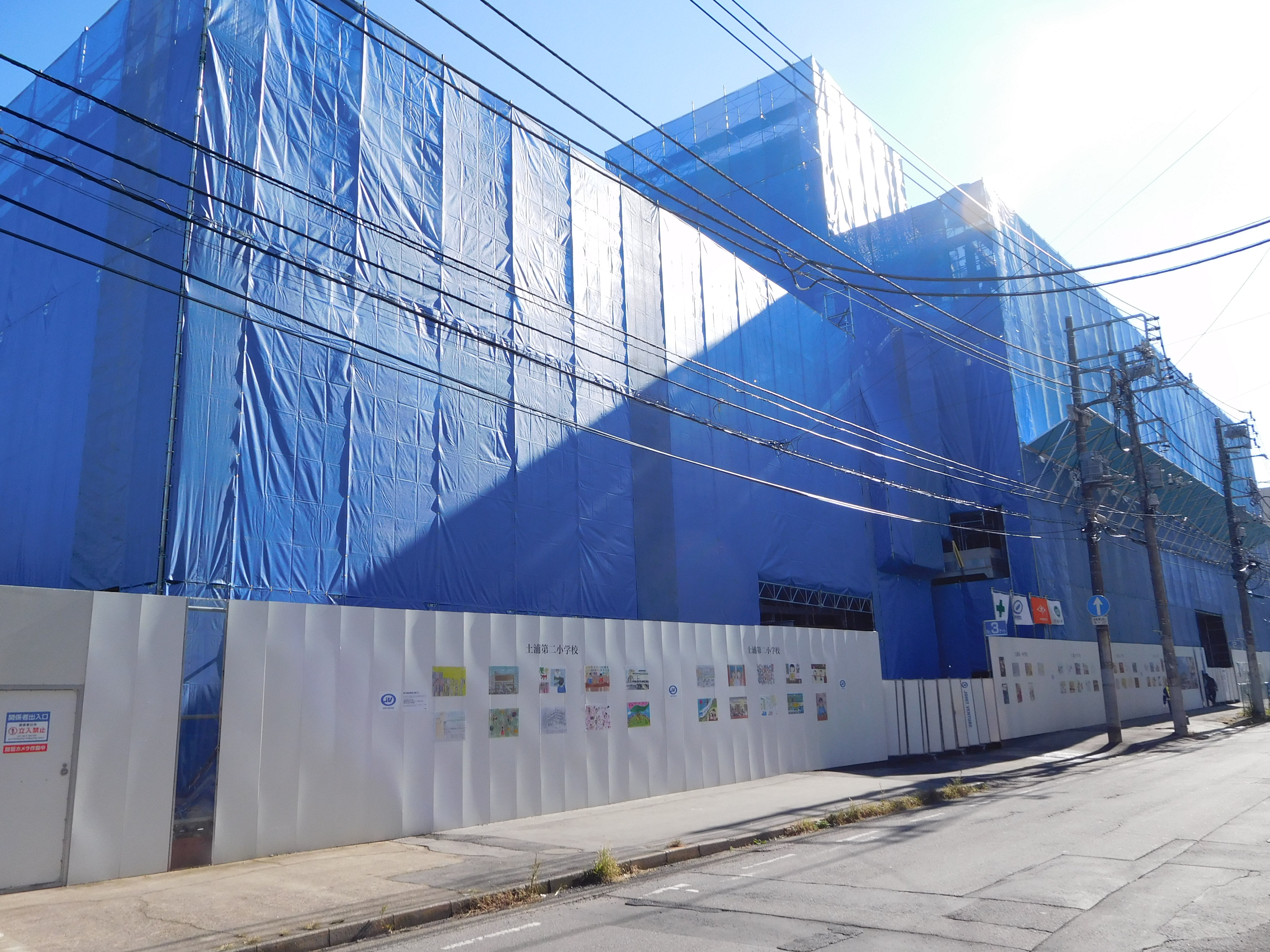 This building will be Tsuchiura public library.